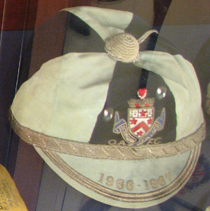 A photograph of a rare Dulwich College honours cap for Rugby, no longer issued after the late 1960s.